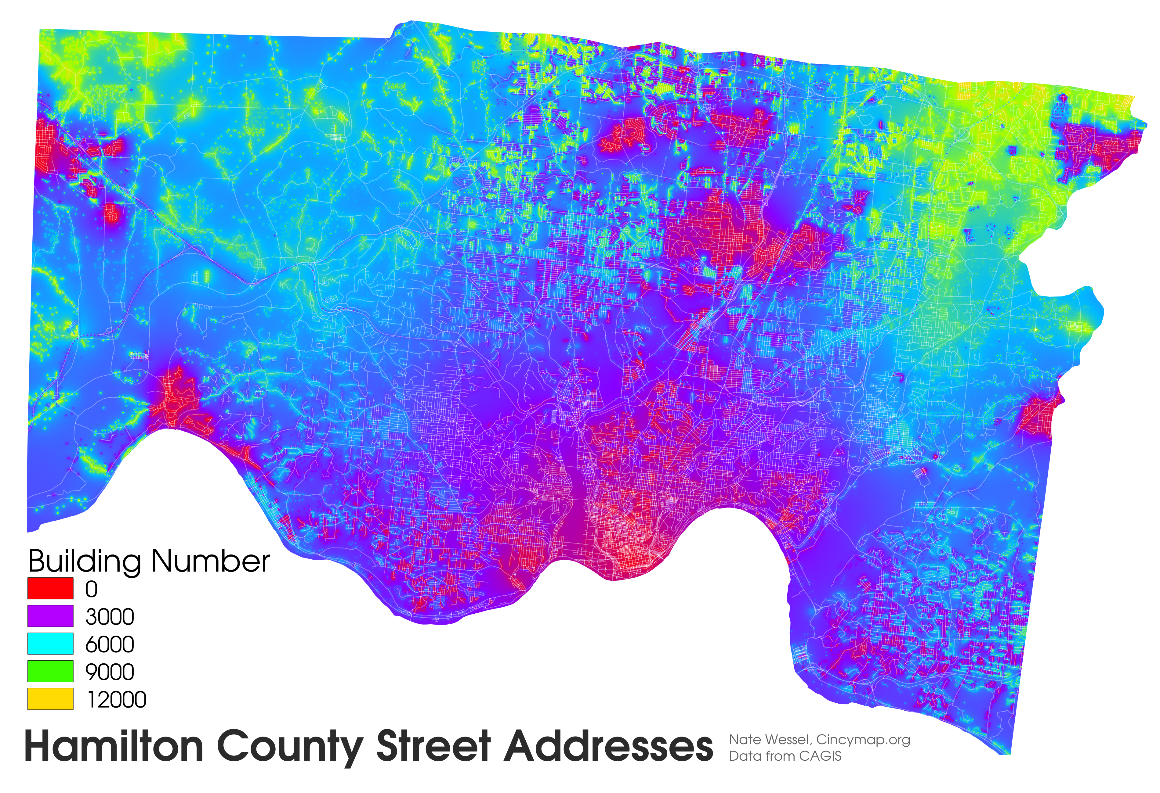 A spectral map of street address numbers in Hamilton County Ohio. Data is from CAGIS, 2008.